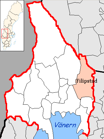 Filipstad Municipality in Värmland County Designd by me, based on Image:Värmland County.png